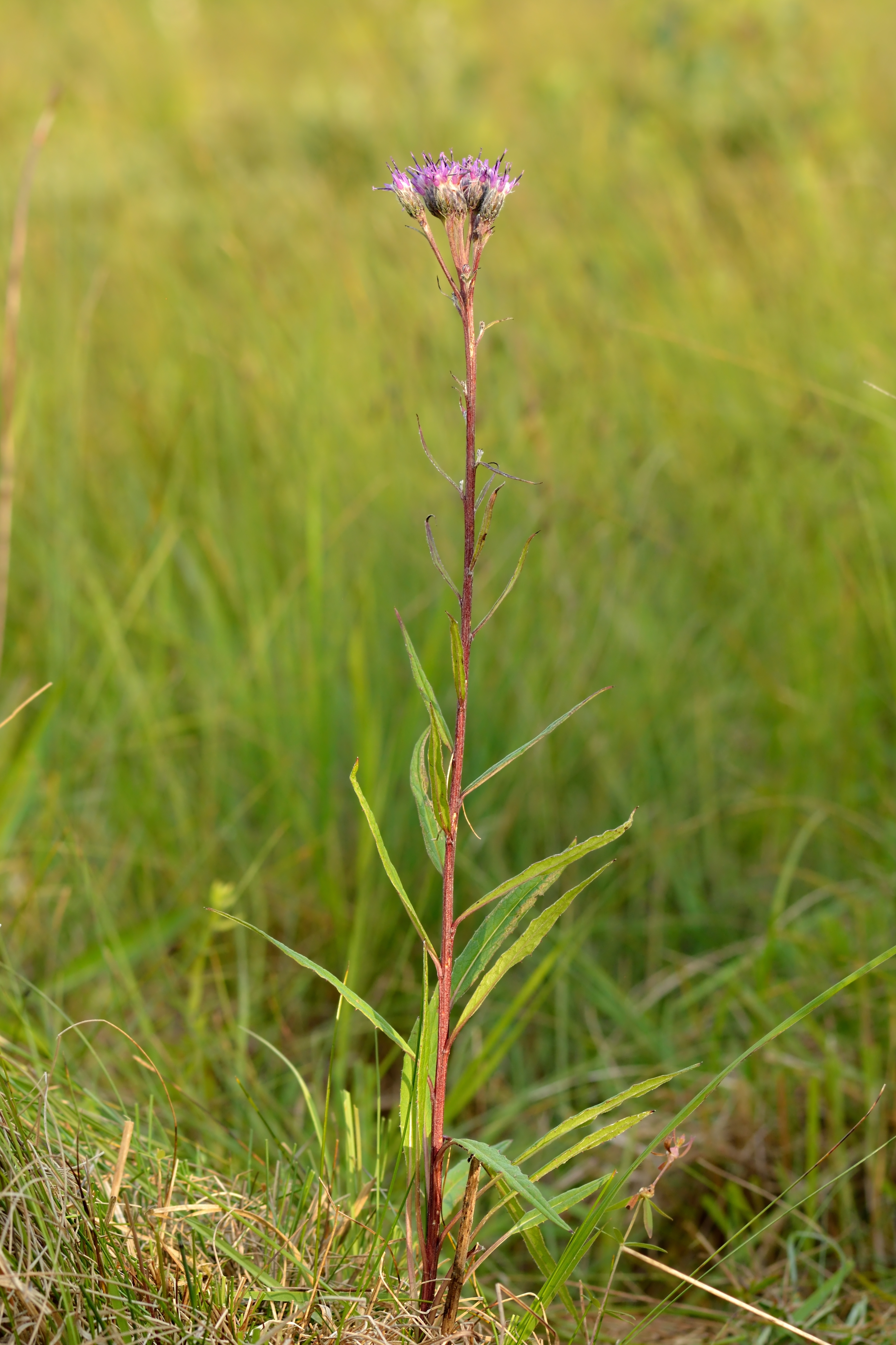 Estonian saw-wort (Saussurea alpina esthonica), endemic subspecies of the Alpine saw-wort. Niitvälja Bog, Northwestern Estonia.